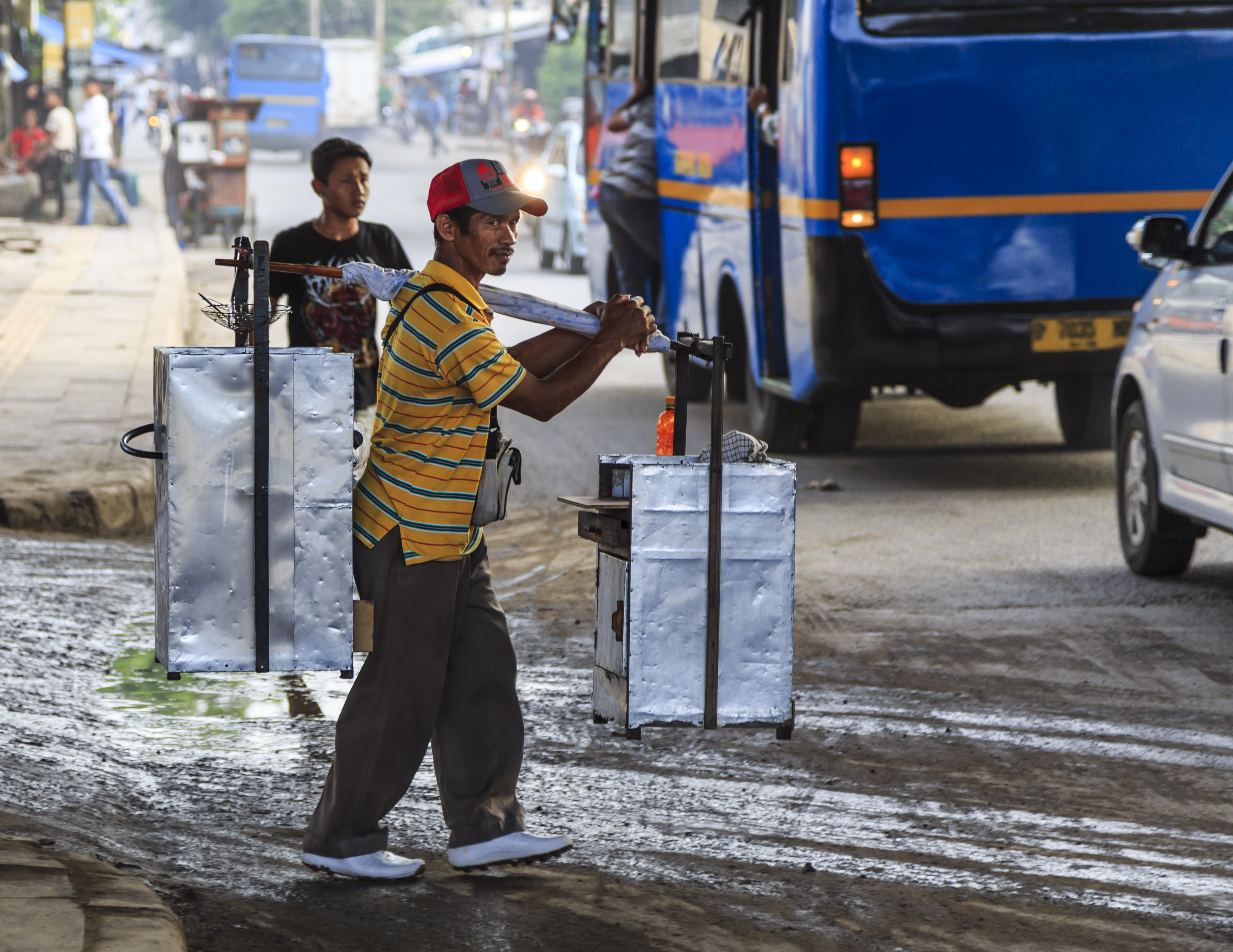 Jakarta, Indonesia: Hawker with mobile food bussiness in Old town Jakarta.